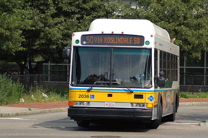 A Massachusetts Bay Transportation Authority NABI 40-LFW CNG bus exiting the Forest Hills busway while on the #50 route.